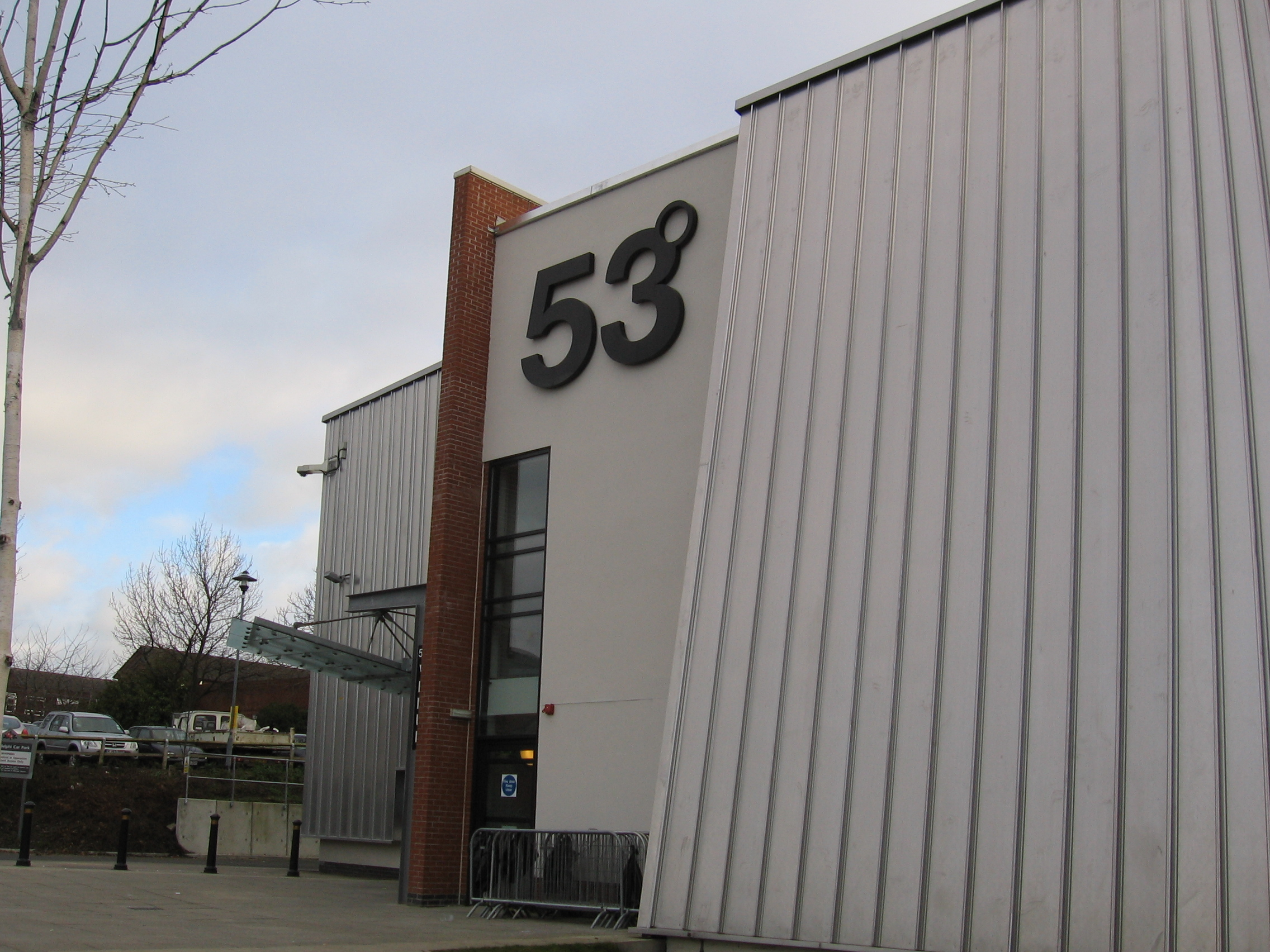 I, fetler, took this photograph myself of the University of Central Lancashire's Students' Union club 53 Degrees.